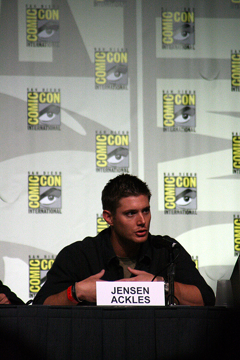 Jensen Ackles at the Comic-Con International 2008